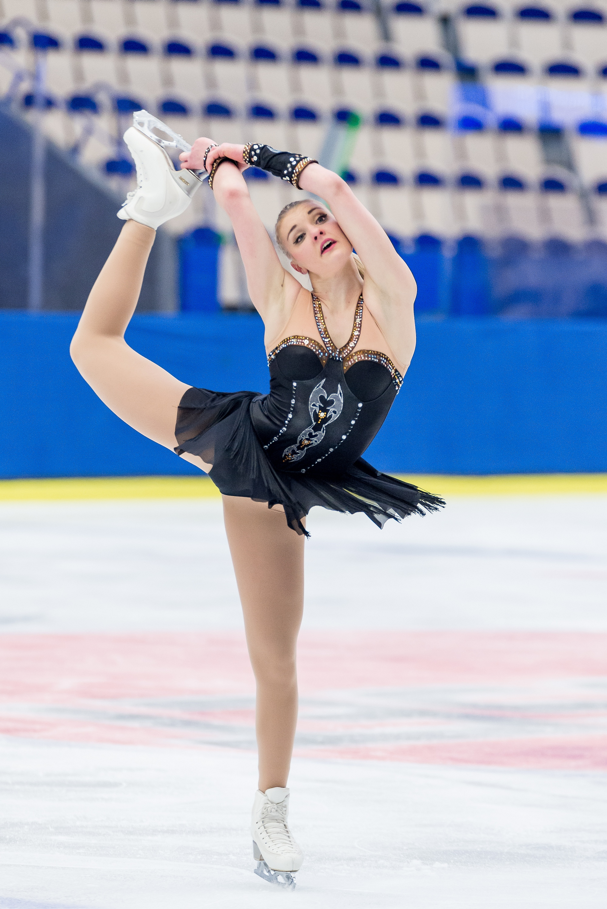 Swedish figure skater Joshi Helgesson performing her free skating at the 2013 Swedish figure skating champrionships at VIDA Arena in Växjö